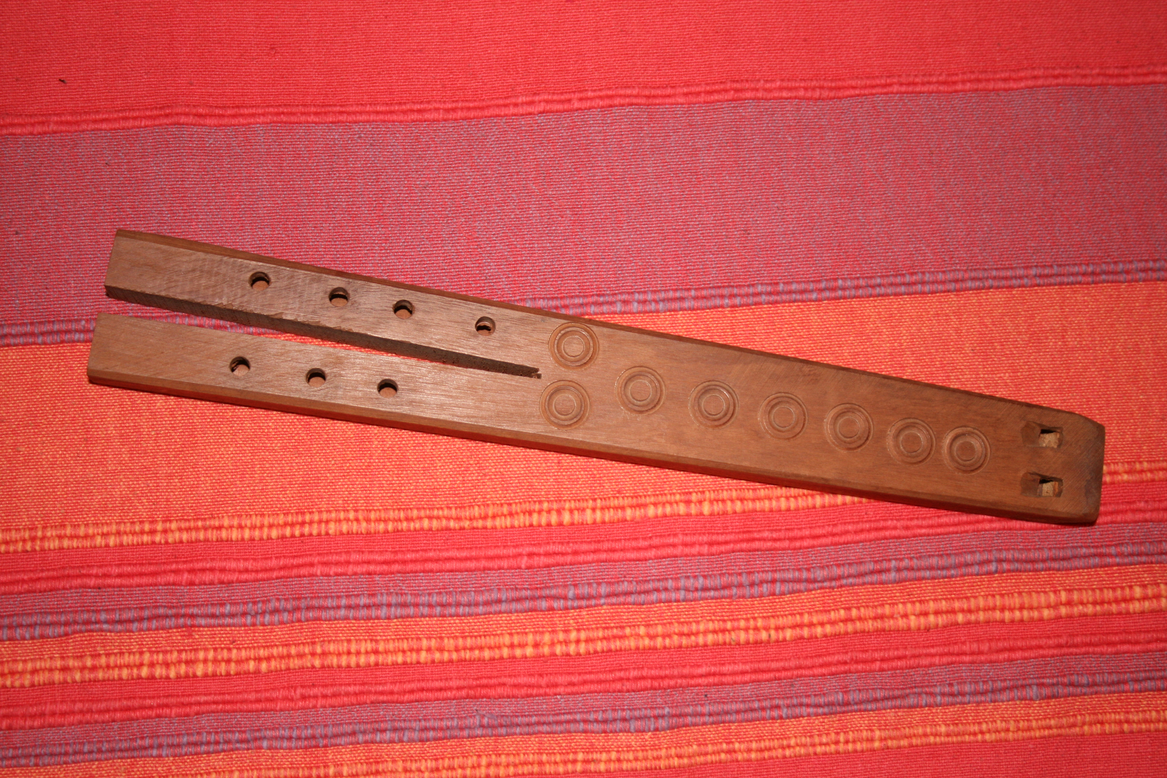 Dvojnice. Serbia and Croatia